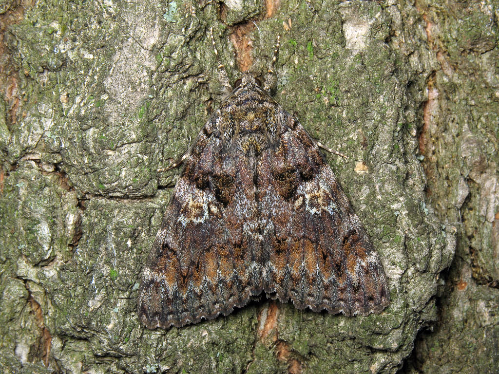 Catocala sponsa